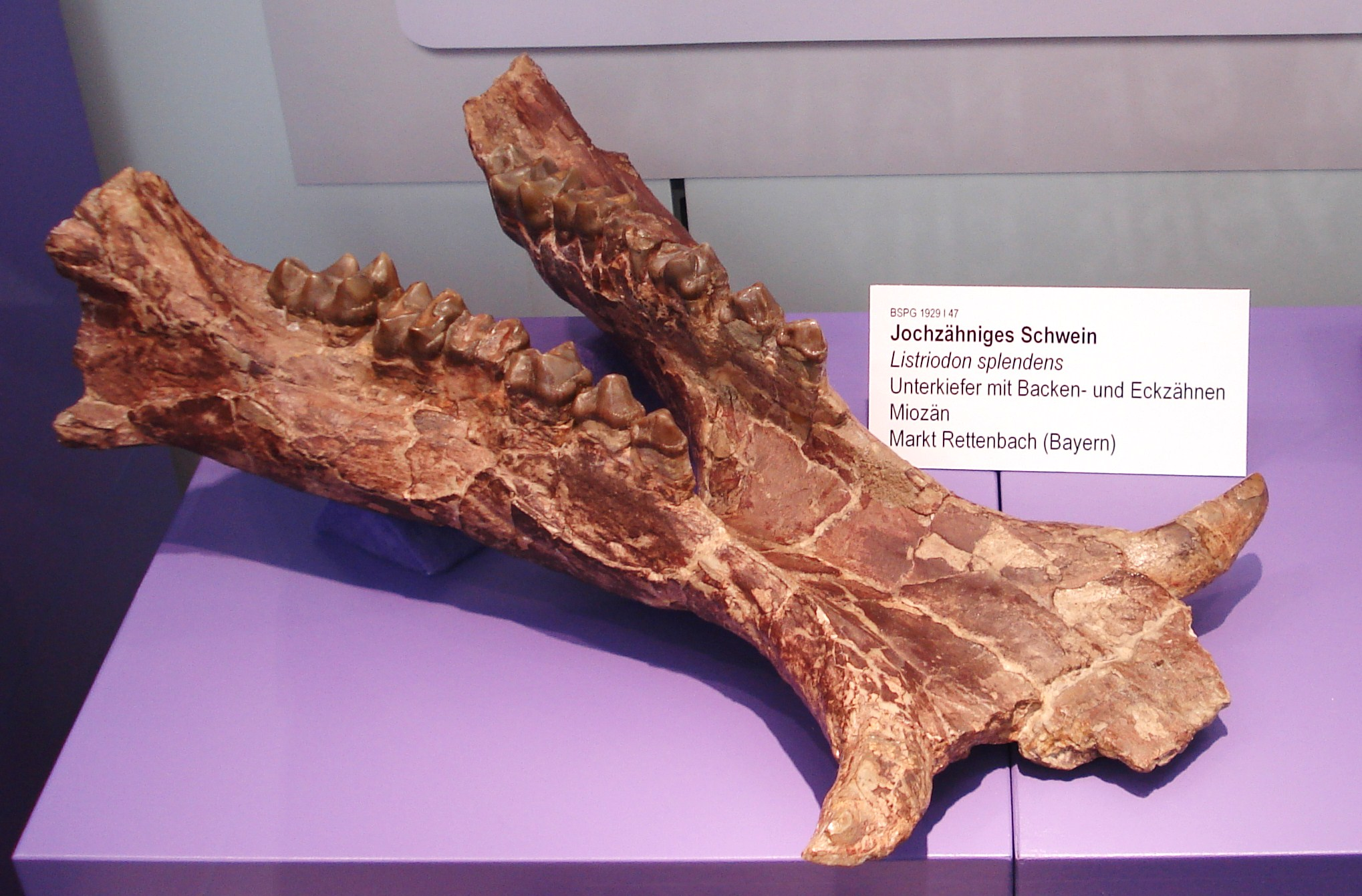 fossil of listriodon splendens